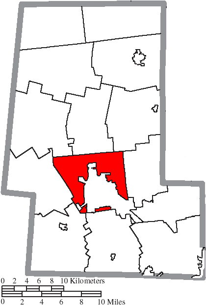 Map of the municipal and township boundaries of Union County, Ohio, United States, as of the 2000 census, with the location of Paris Township highlighted. Township borders are shown only in unincorporated areas in order to differentiate incorporated and unincorporated areas more clearly.